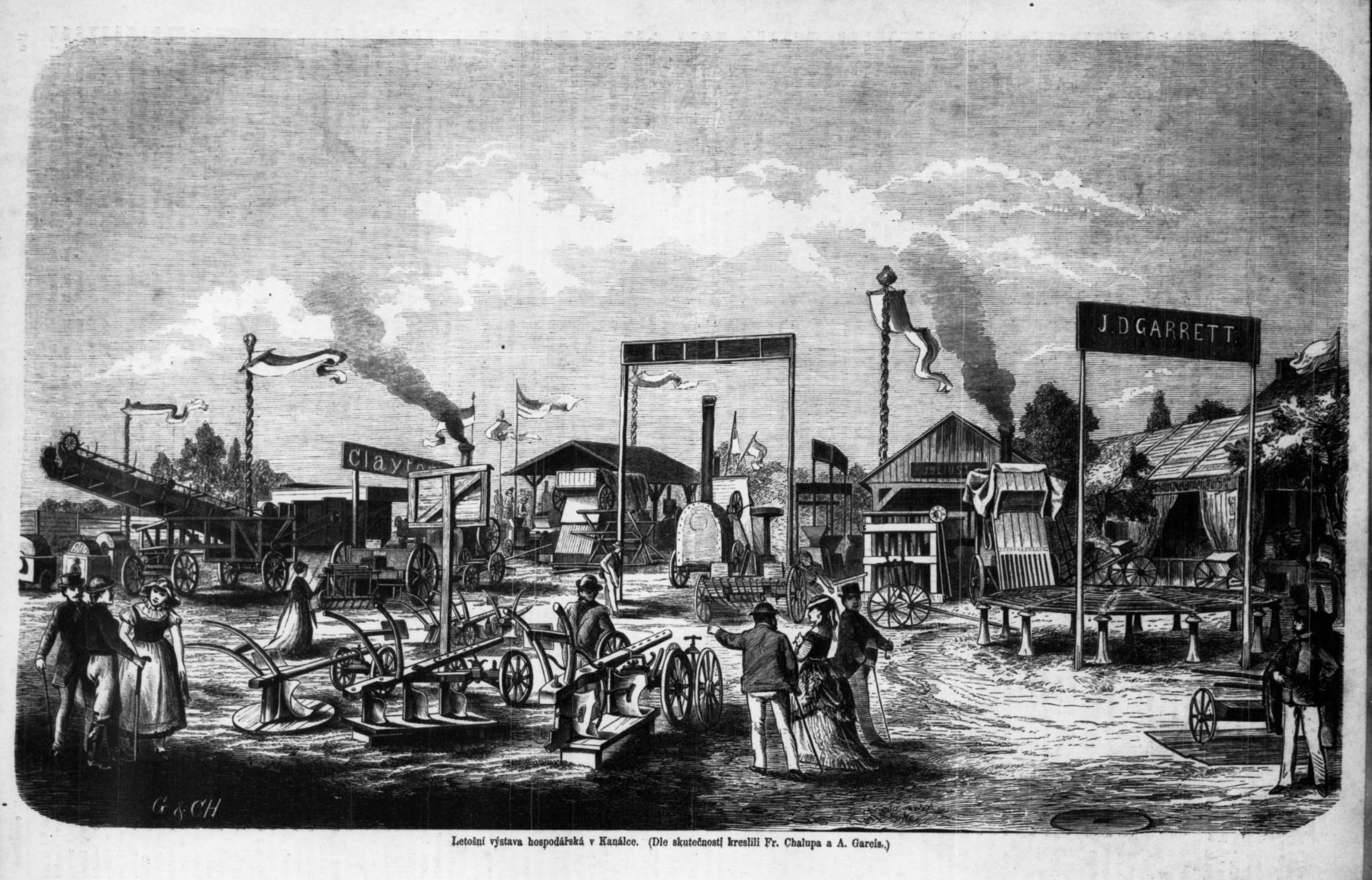 Industrial exposition in Kanálka garden, Prague, 1869